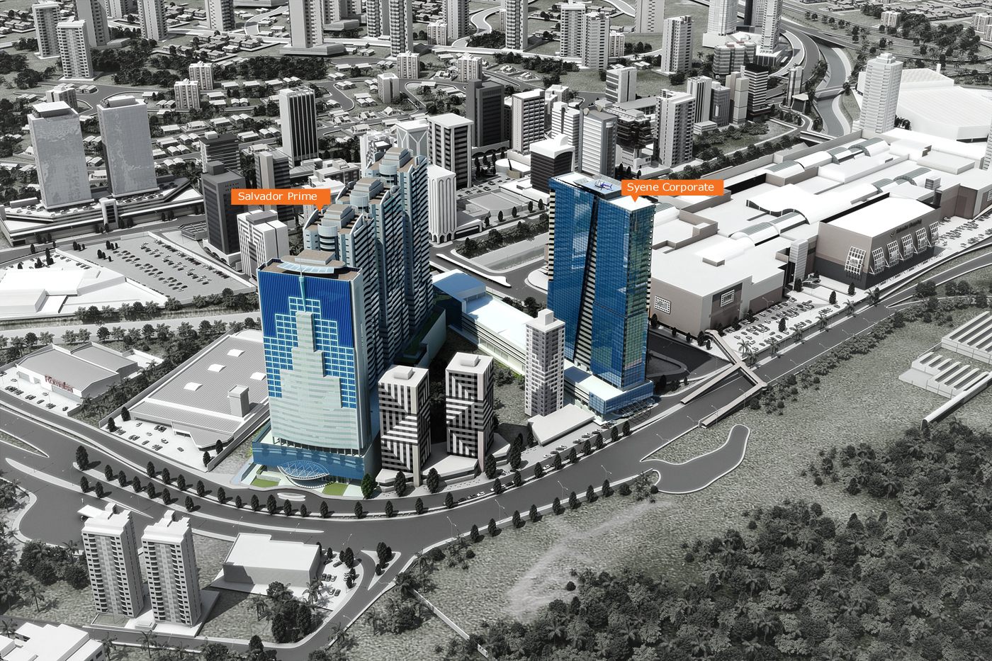 Salvador Prime and Syene Corporate, two prize designs of Antonio Caramelo